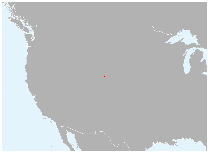 Range map for Anaxyrys baxteri